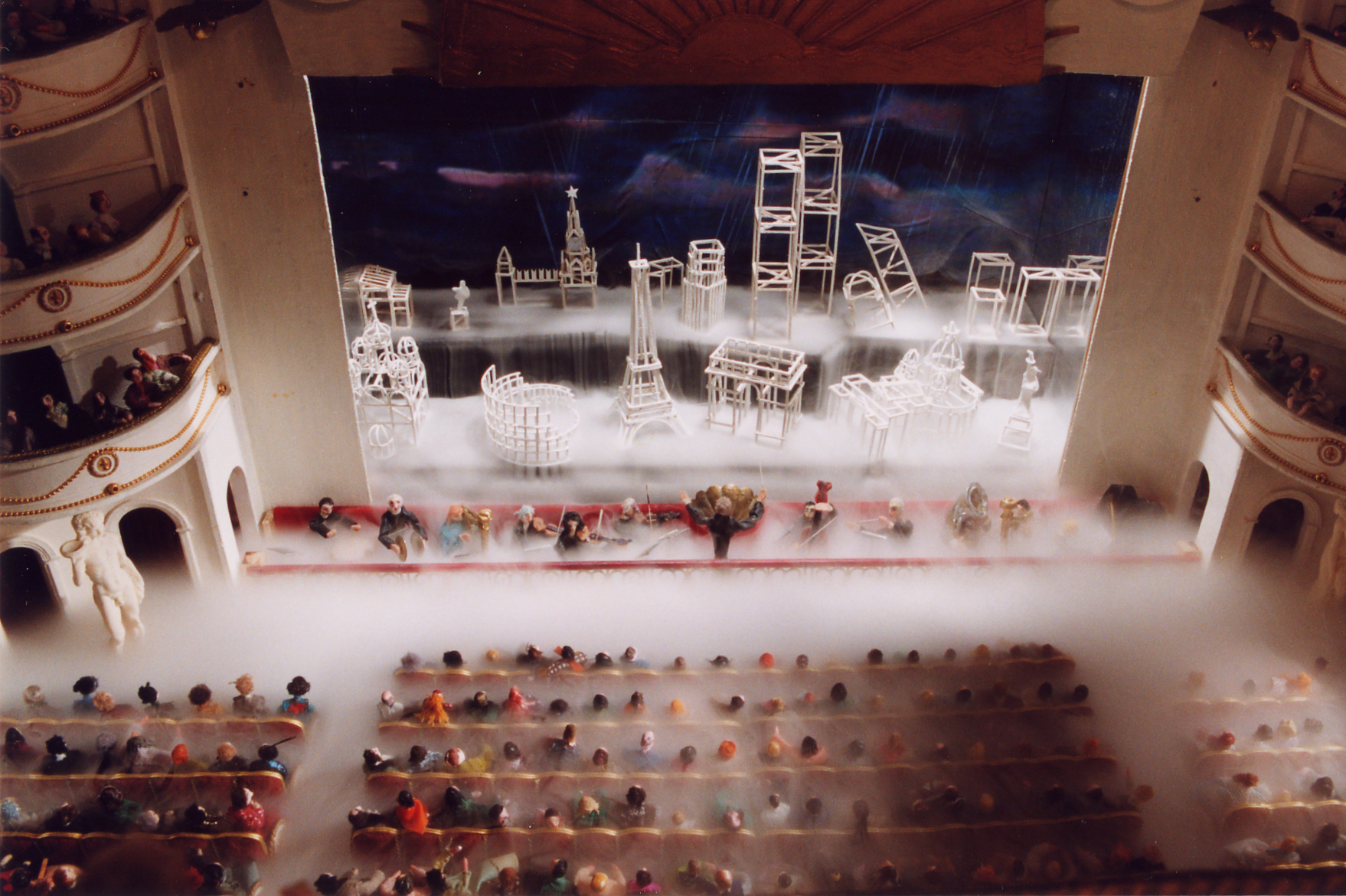 Tonino Guerra, Rain after the flood